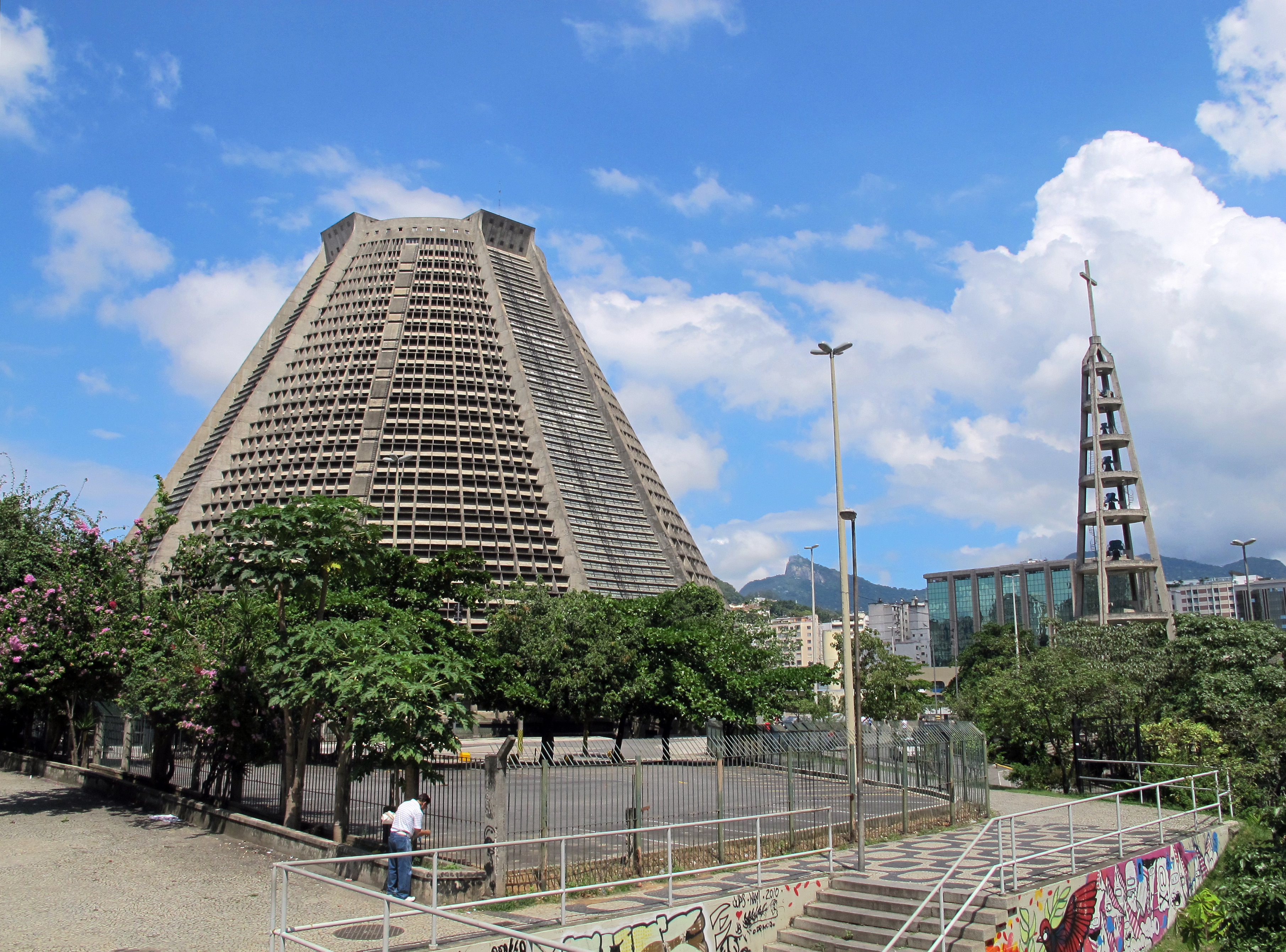 Metropolitan Cathedral of Rio de Janeiro